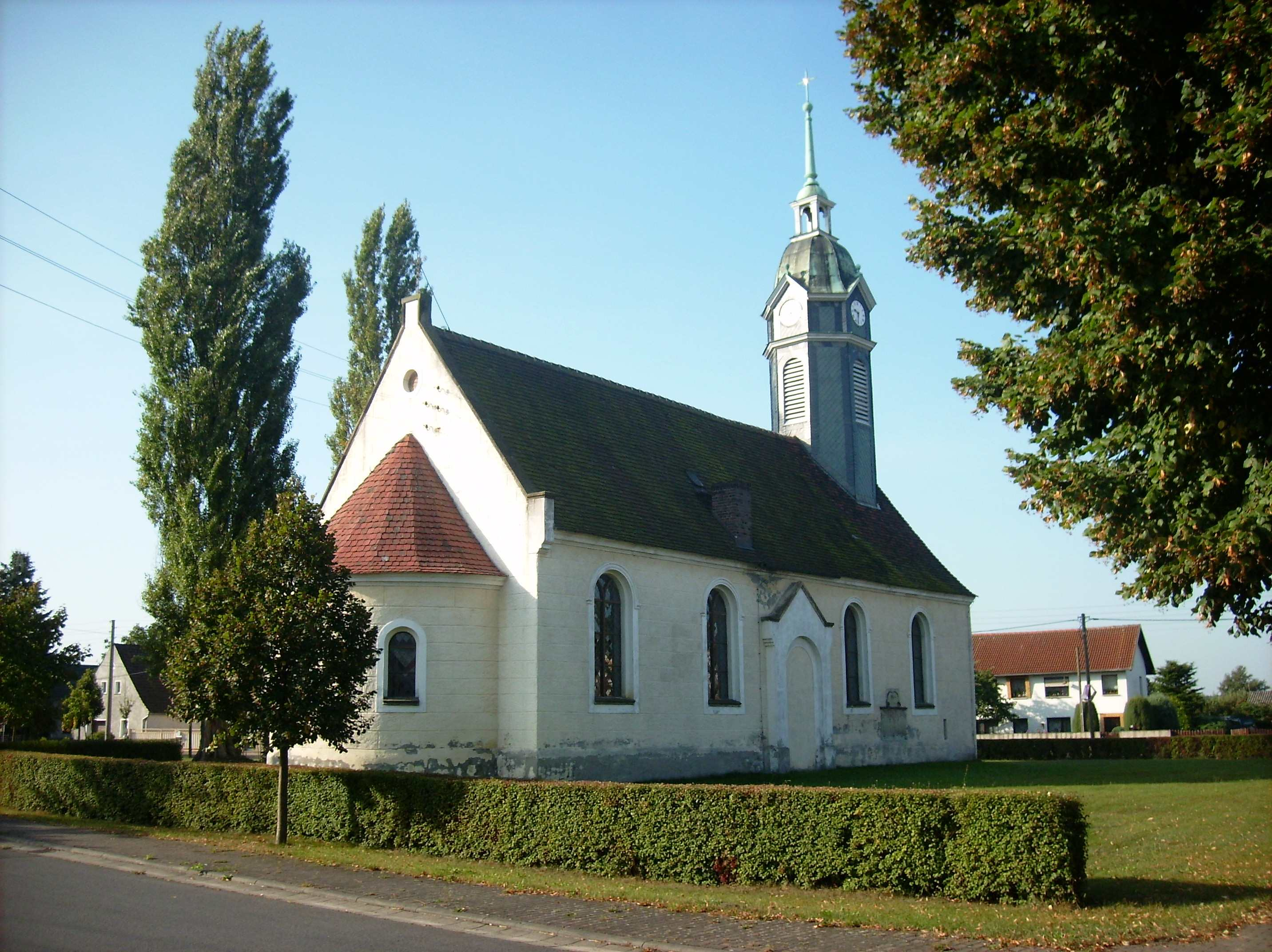 Church of the village of Beyern (Falkenberg/Elster, Elbe-Elster district, Brandenburg)